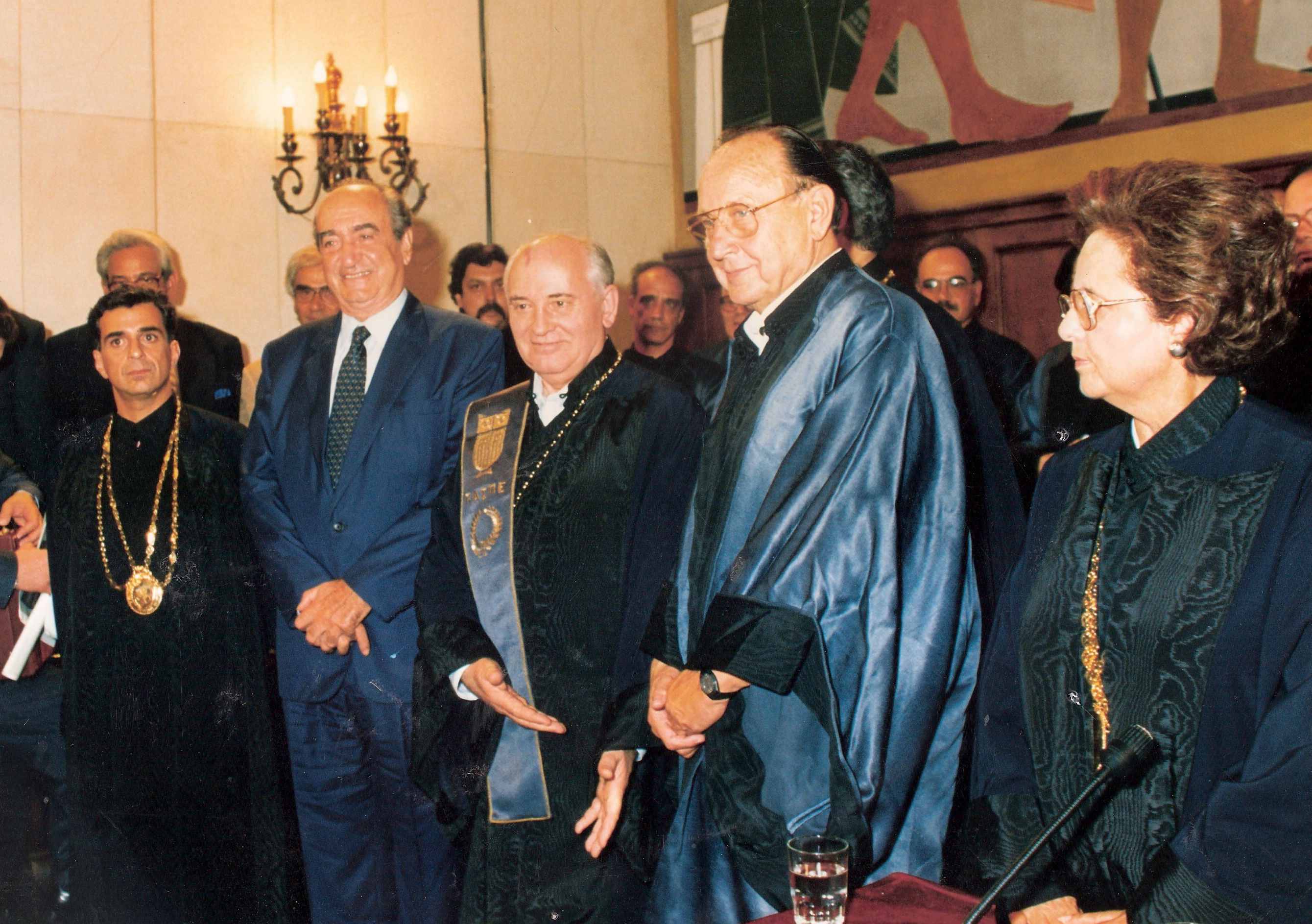 (Left to right) Aimilios Metaxopoulos, Constantine Mitsotakis, Mikhail Gorbachev, Hans-Dietrich Genscher at the ceremonial awarding of the honorary doctorate to Gorbachev by the Panteion Panepistimion of Athens, September 13 1993.